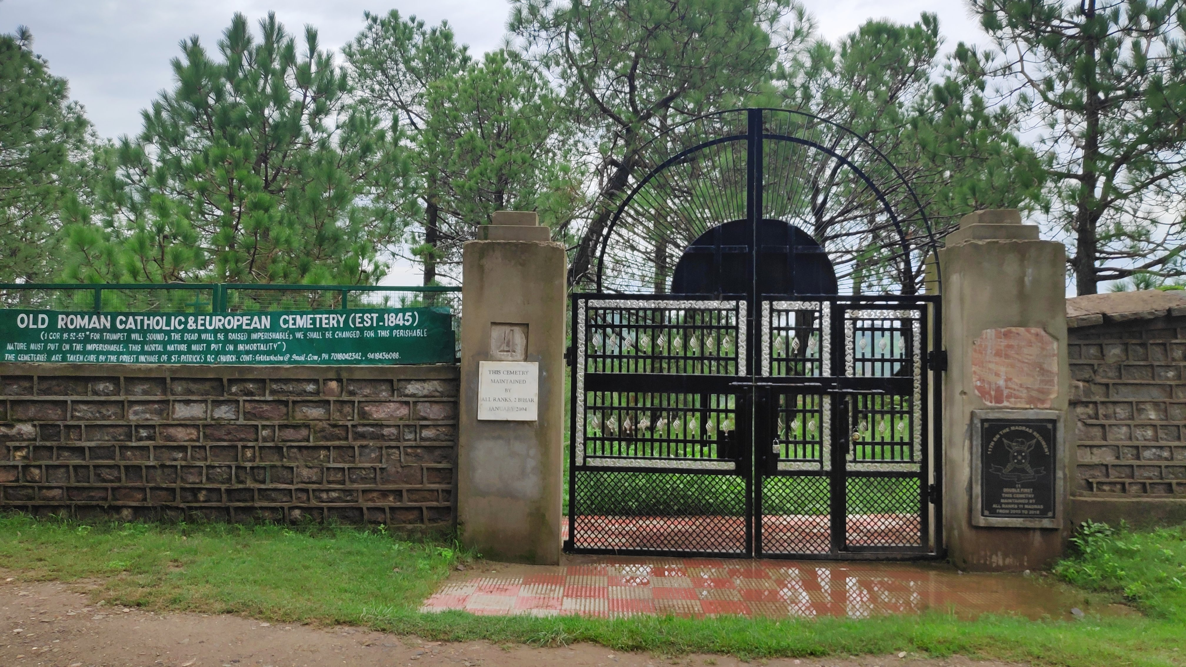 Old Roman catholic European Cementary Gate (1845) Dagshai